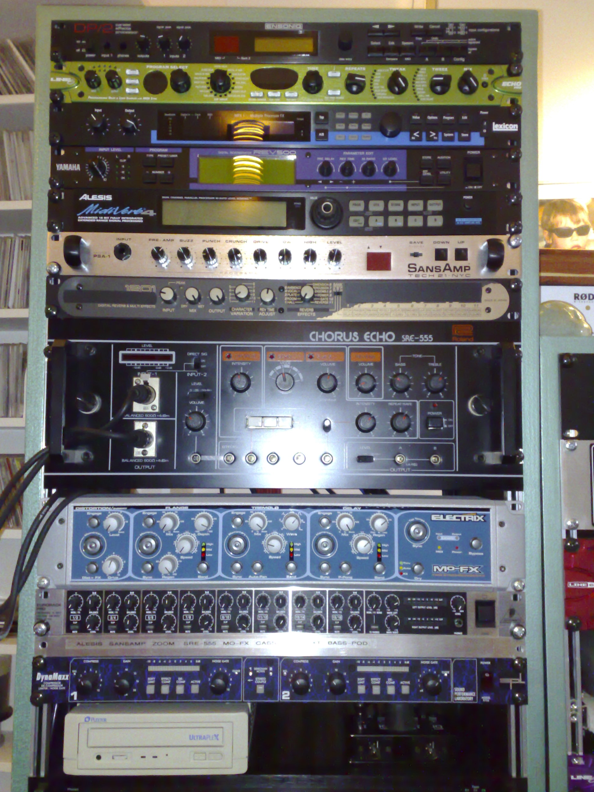 Audio Studio Rack Ensoniq DP/2 2in/2out multi effects processor Line 6 Echo Pro Studio Modeler LEXICON MPX1 2in/2out multi effects processor YAMAHA REV500 Digital Reverberator Alesis MidiVerb 4 Dual-Channel Parallel Processor TECH21 SansAmp PSA-1 Zoom Studio 1201 multi effects processor Roland SRE-555 Chorus Echo ELECTRIX Mo-FX (distortion/flanger/tremolo/delay) Behringer EURORACK (8tr/16ch Line Mixer) SPL DynaMaxx (compressor/limiter/noise gate) Plextor UltraPleX (CD-R/RW recorder)